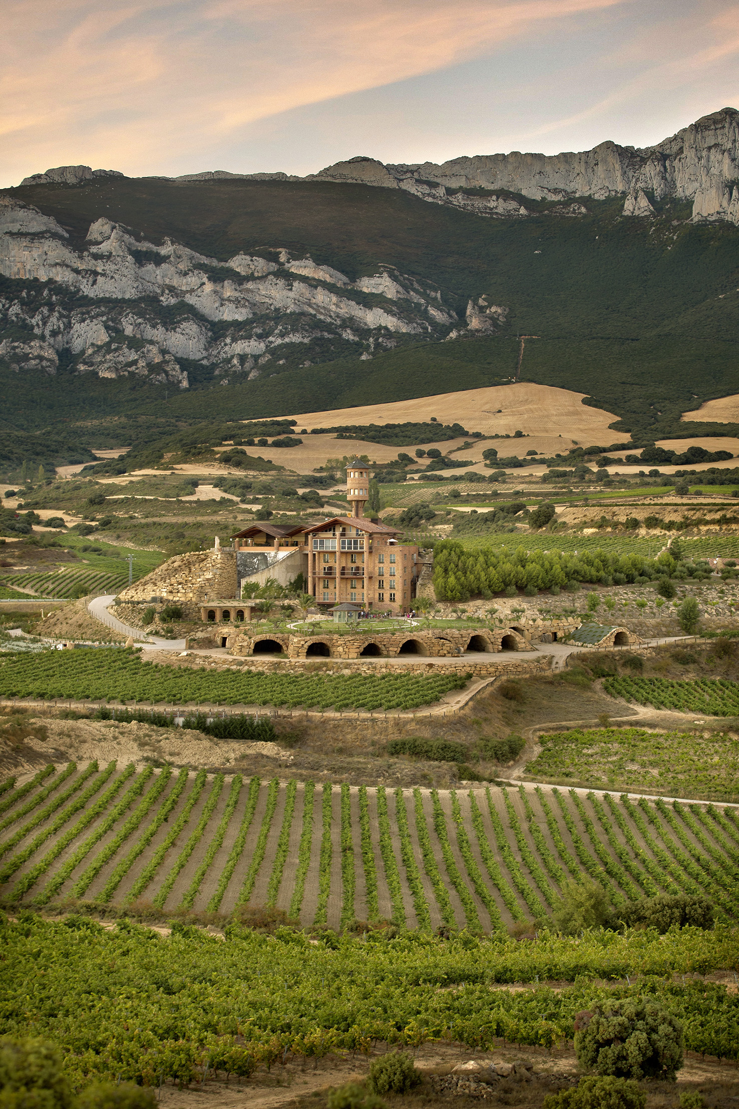 Eguren Ugarte at Sunset.